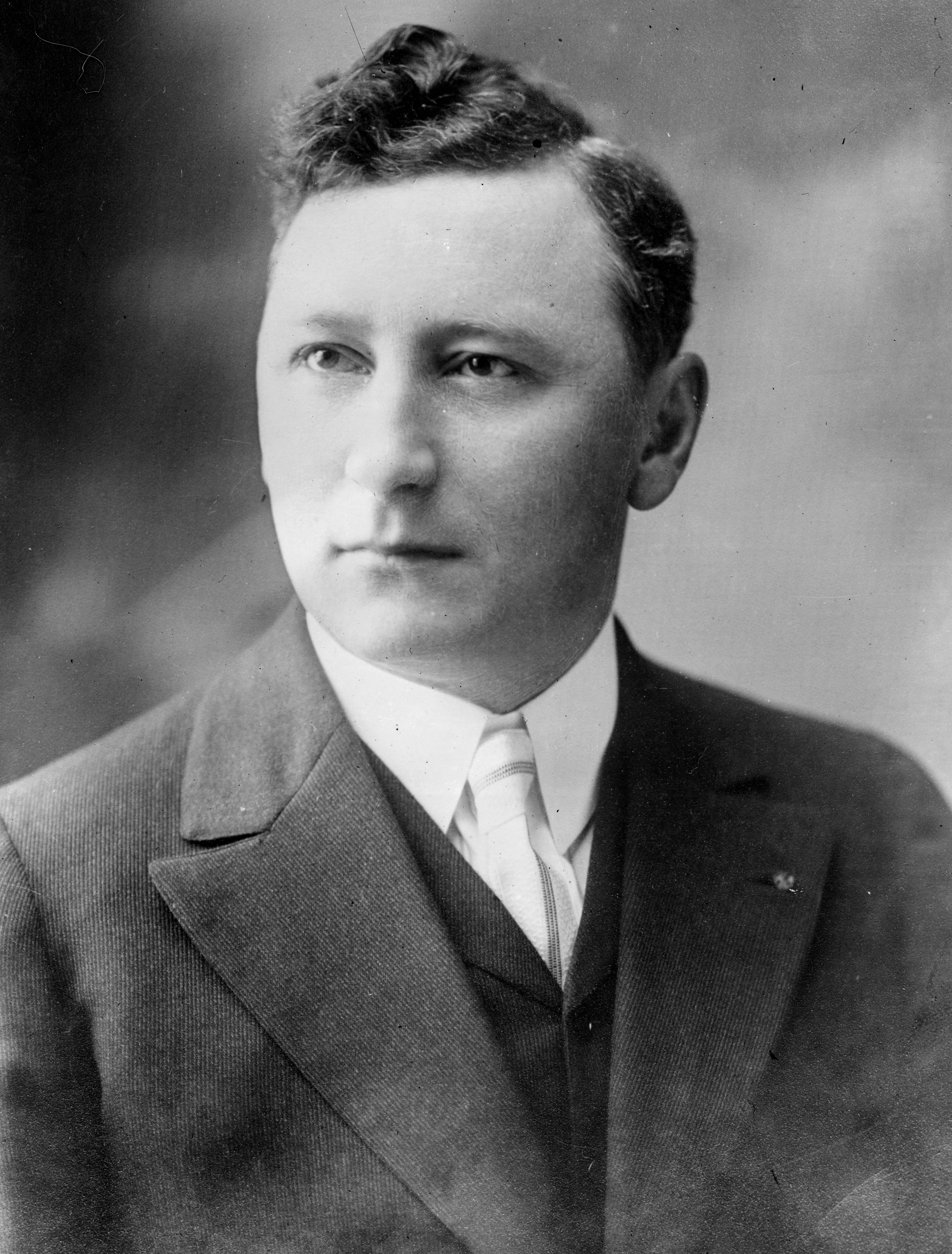 Frederick Nicholas Zihlman, former U. S. Congressman.